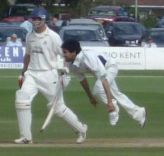 Amjad Khan bowling for Kent, alongside non-striker Mark Chilton of Lancashire.